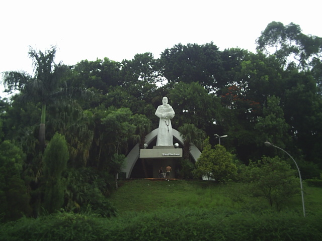 Ecological Park Chico Mendes in São Caetano do Sul.